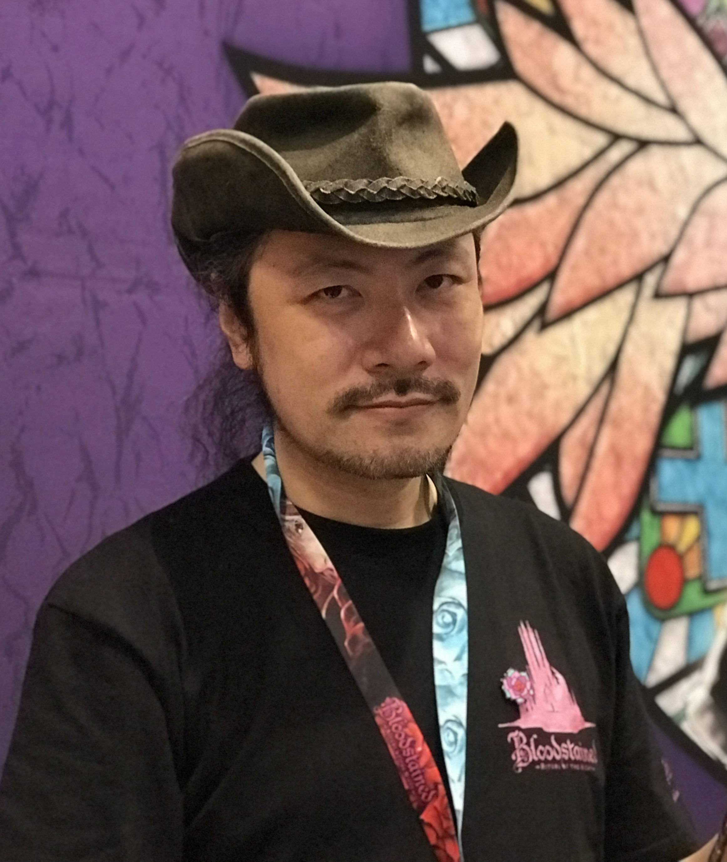 Japanese video game producer Koji Igarashi on Thursday, October 5, 2017 at the Jacob K. Javits Convention Center in Manhattan, Day 1 of the 2017 New York Comic Con. This photo was created by Luigi Novi. It is not in the public domain, and use of this file outside of the licensing terms is a copyright violation.